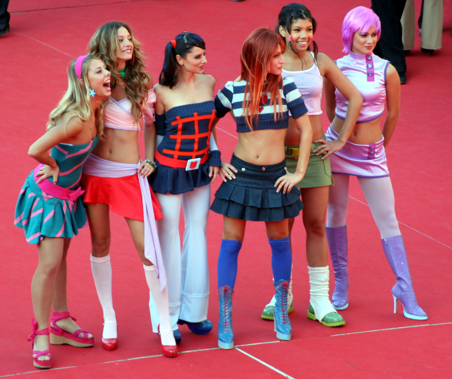 Actors portraying the Winx Club attend an event in Italy. The "real" Winx!!